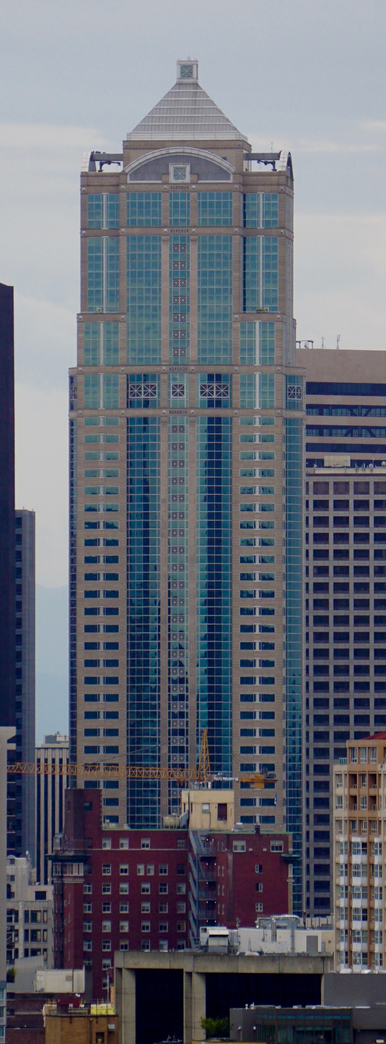 Image of the 1201 Third Avenue Building in Seattle